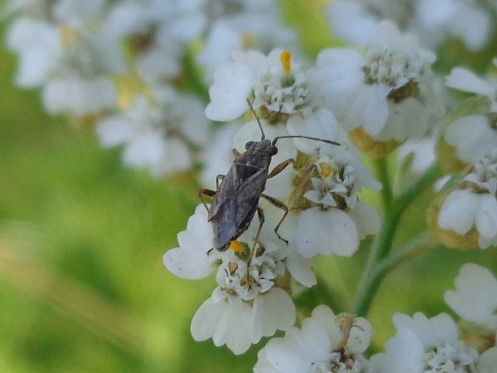 Nysius ericae. Found in Riga town, Latvia